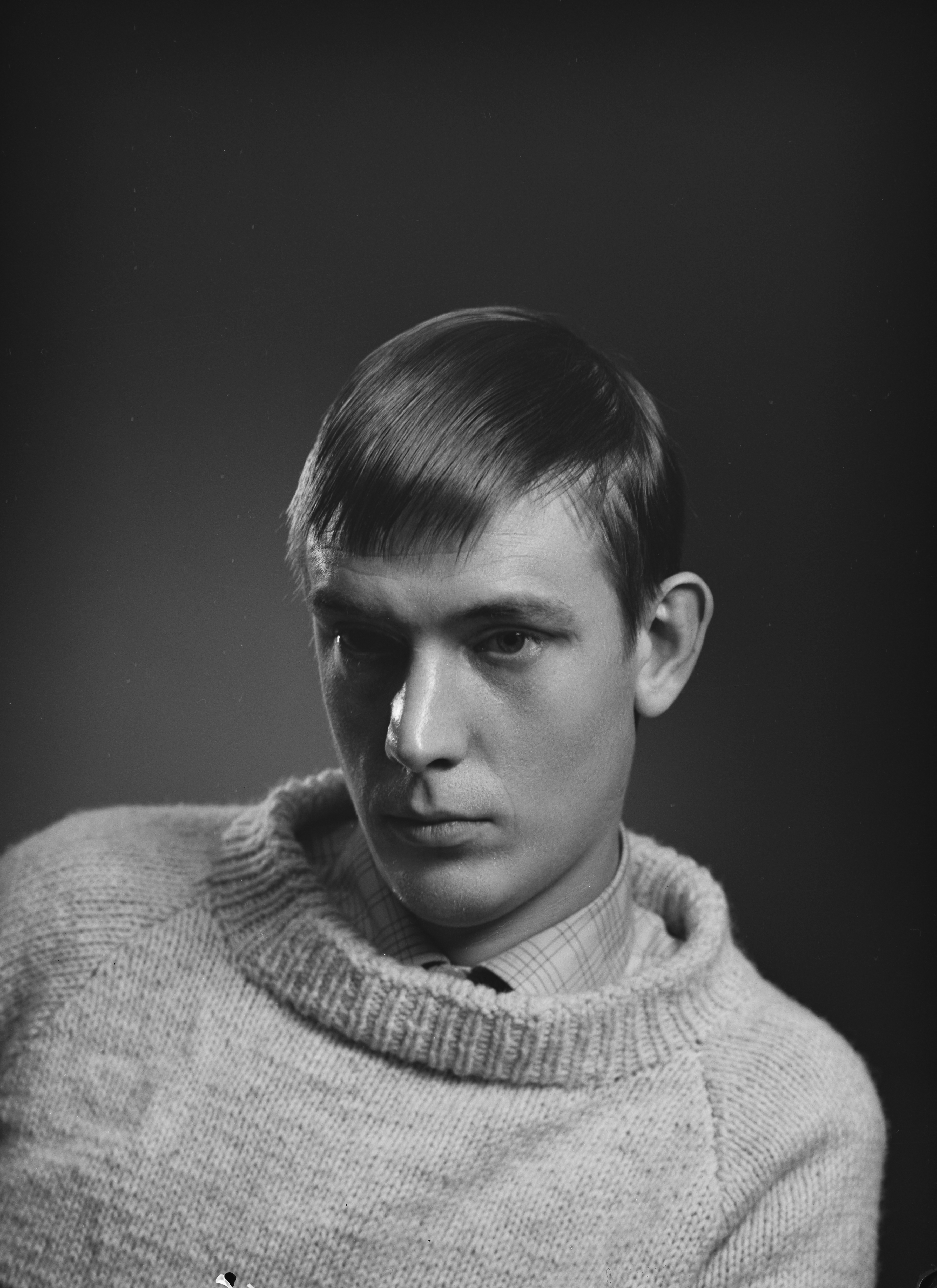 Folke Forsman (b. 1937), Finnish organist, music critic and pedagogue